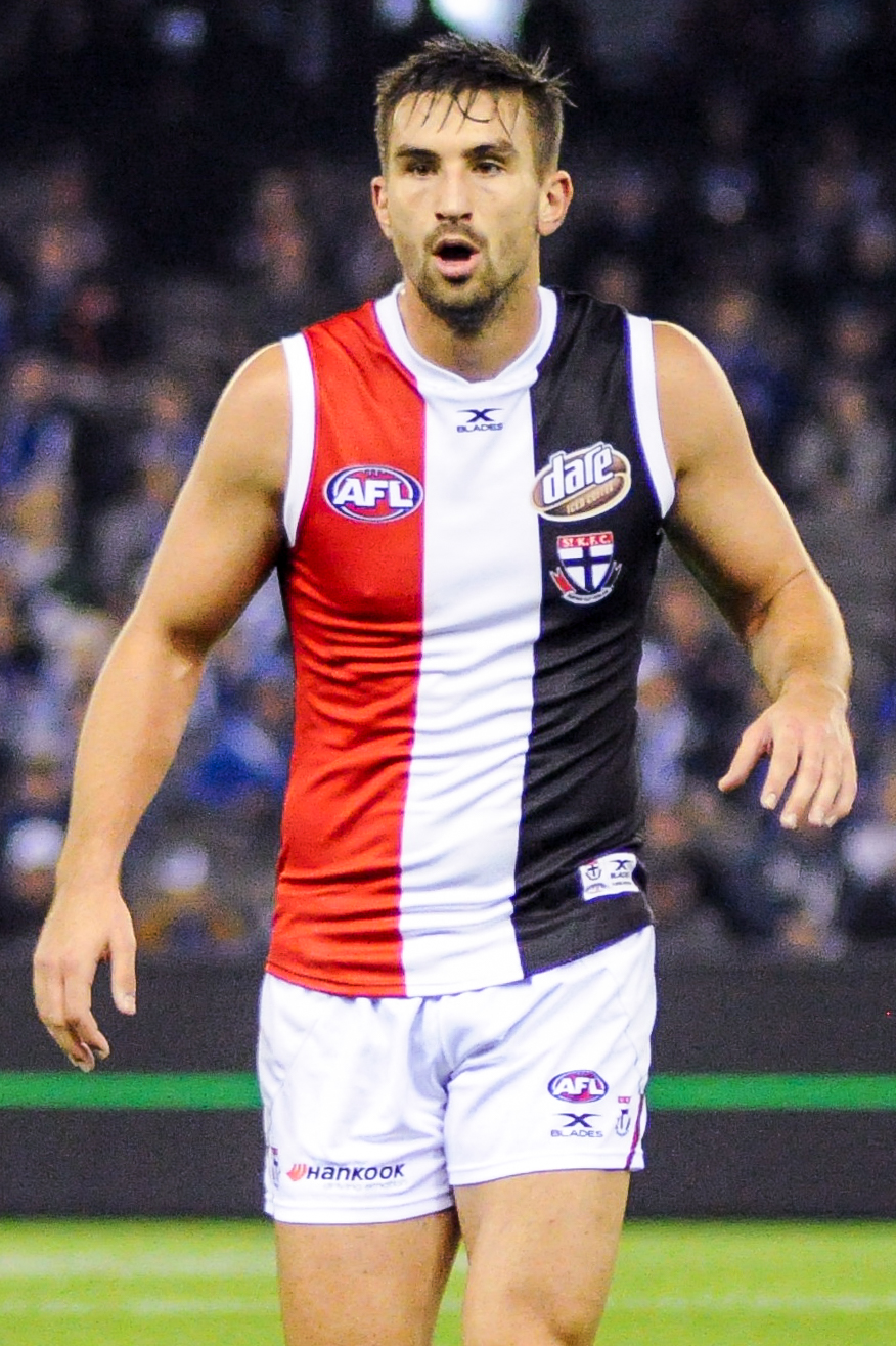 Billy Longer during the AFL round thirteen match between North Melbourne and St Kilda on 16 June 2017 at Etihad Stadium in Melbourne, Victoria.